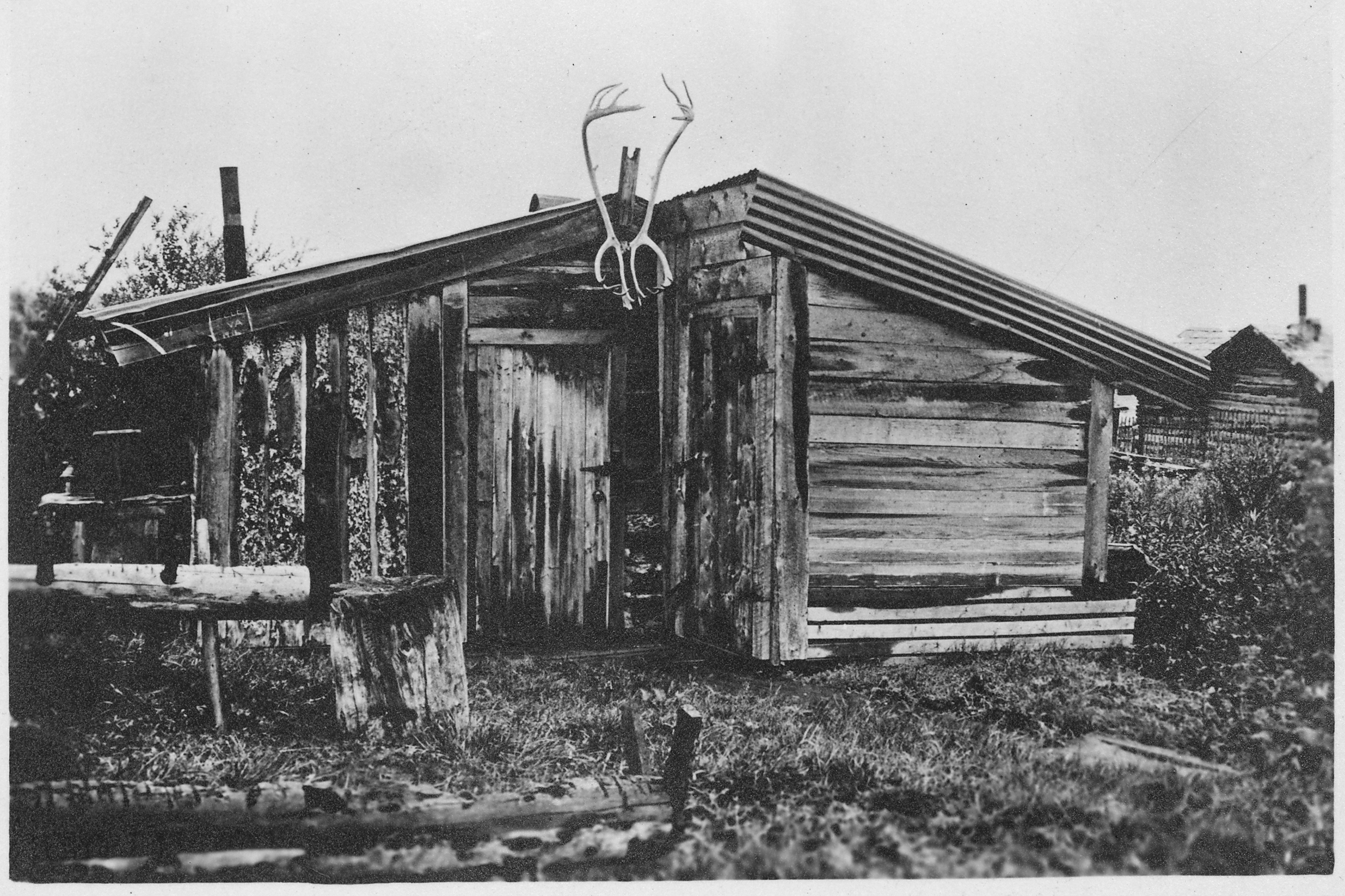 Scope and content: On backing: "Presented to Mr. Wellcome by O.B. Kent, Interstate Commerce Commission, Washington D.C. See Letter 10-7-16 O.B. Kent to H.S. Wellcome attached to descriptive memorandum accompanying photo #978."